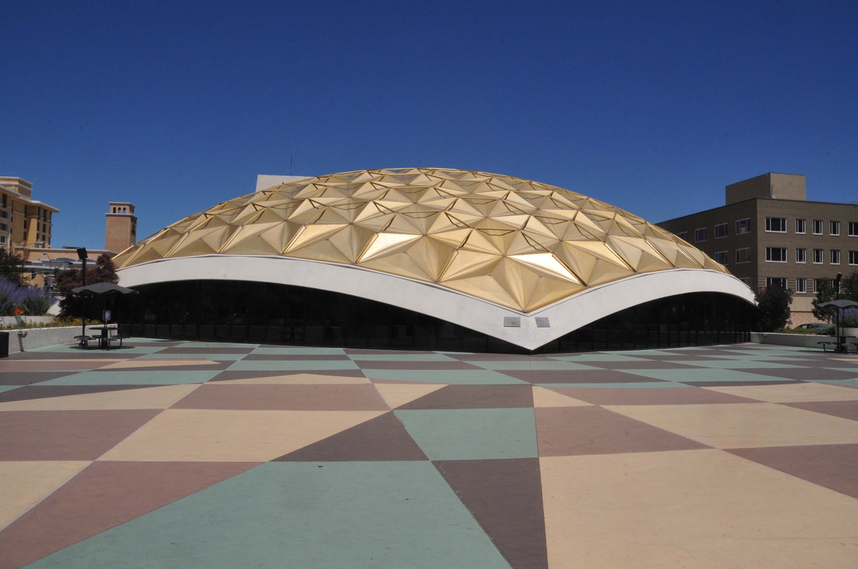 THE PIONEER CENTER WAS BUILT IN 1968. ITS ARCHITECTURAL STYLE WAS DERIVED FROM THE INVENTIONS OF RICHARD BUCKMINSTER FULLER’S WHOSE FAMOUS GEODESIC DOME IS BASED ON THE IDEA THAT THE TRIANGLE IS THE STRONGEST STRUCTURE IN NATURE.